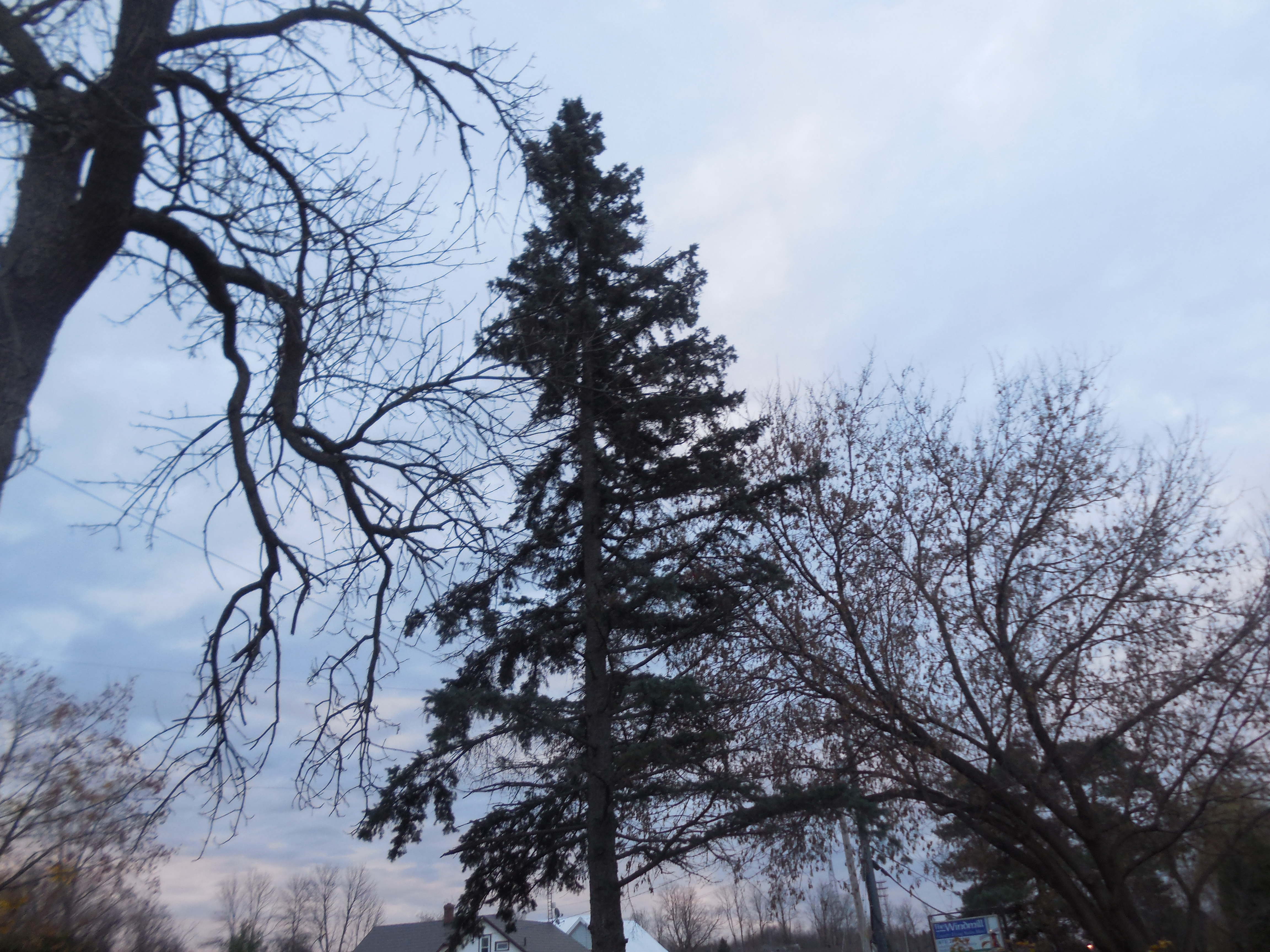 A Winter tree